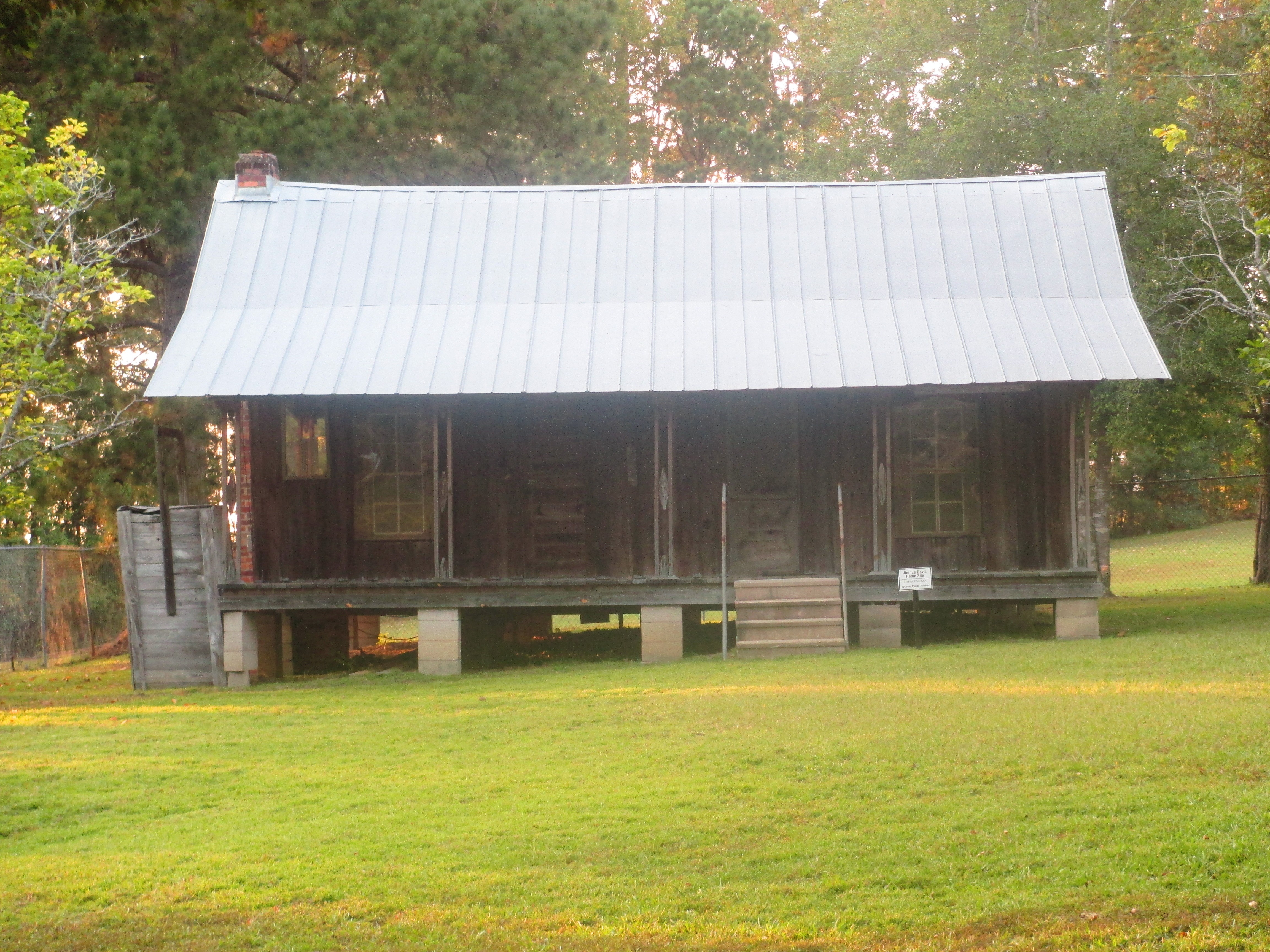 I took photo with Canon camera of Jimmie Davis homestead in Jackson Parish, LA.